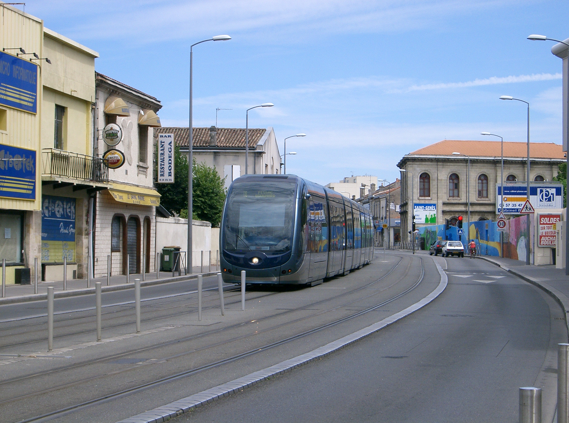 Bordeaux tram using APS on route B near the Roustaing tramstop. Photographed by S P Smiler, summer 2006.